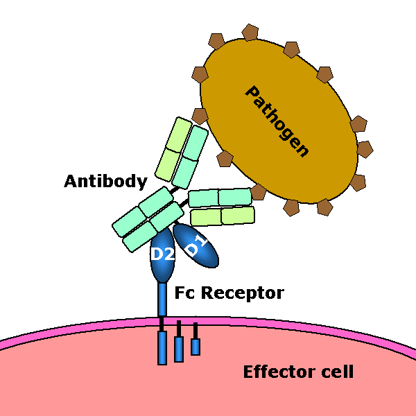 Picture of Fc Receptor